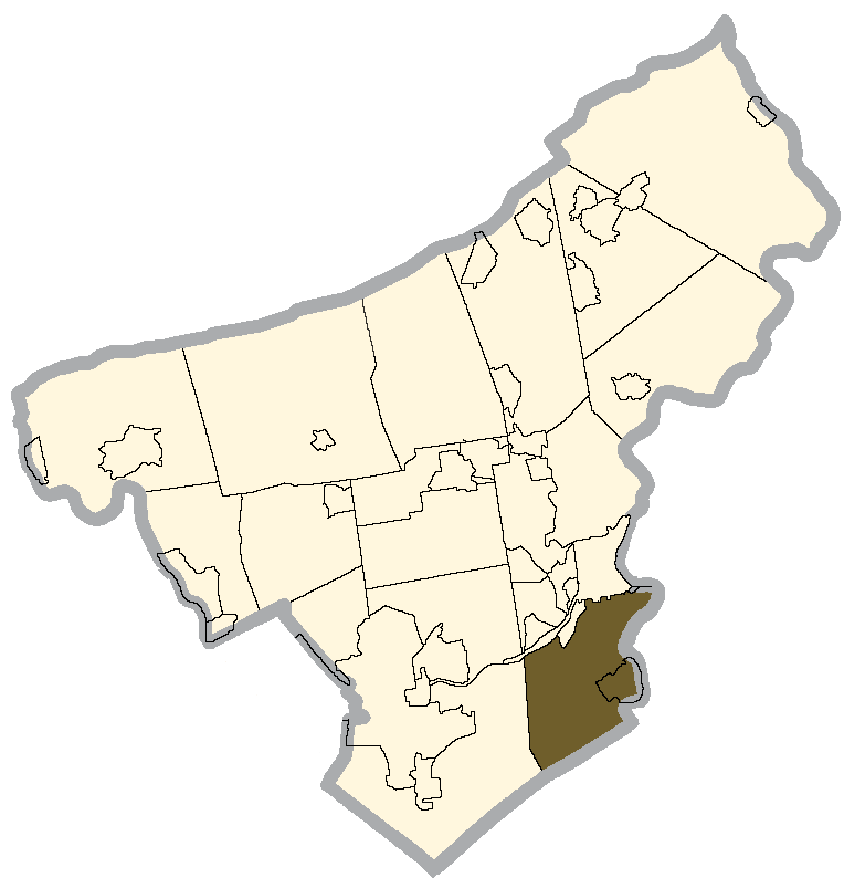 Williams Township shaded on the Northampton county map.